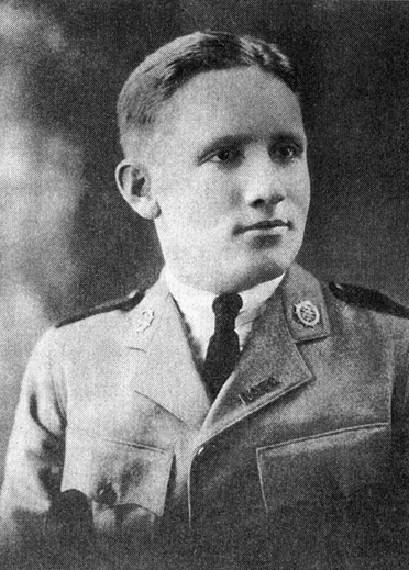 Yearbook photo of Spencer Tracy